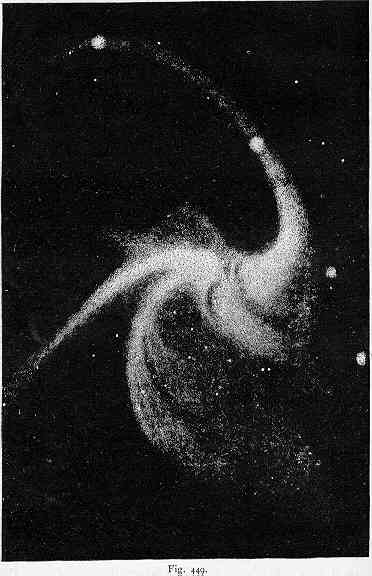 Drawing of the Triangulum Galaxy by William Parsons, 3rd Earl of Rosse